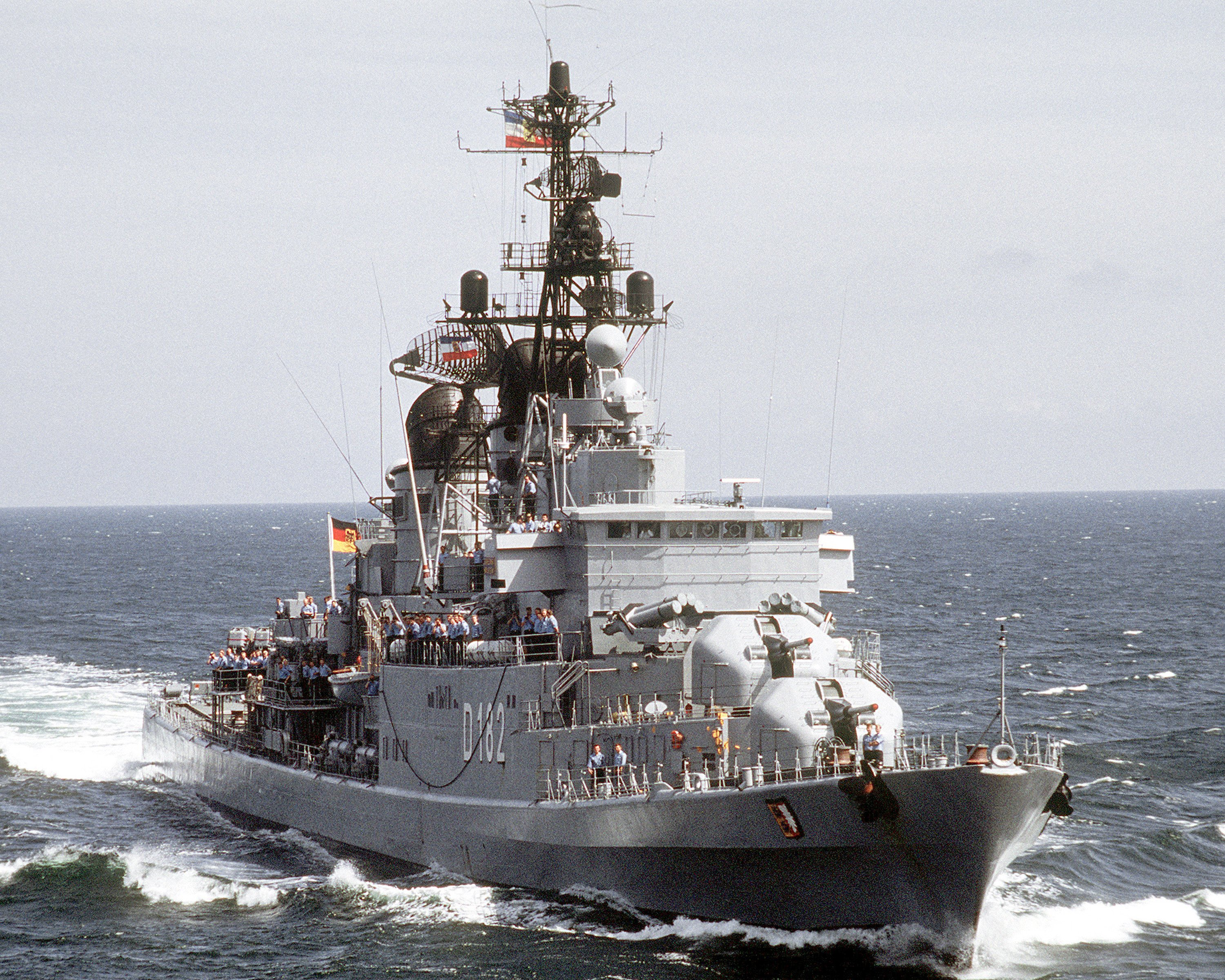 The German destroyer Schleswig-Holstein (D182) underway during the exercise "Baltops '92" on 1 June 1992. Note the enlarged bridge.